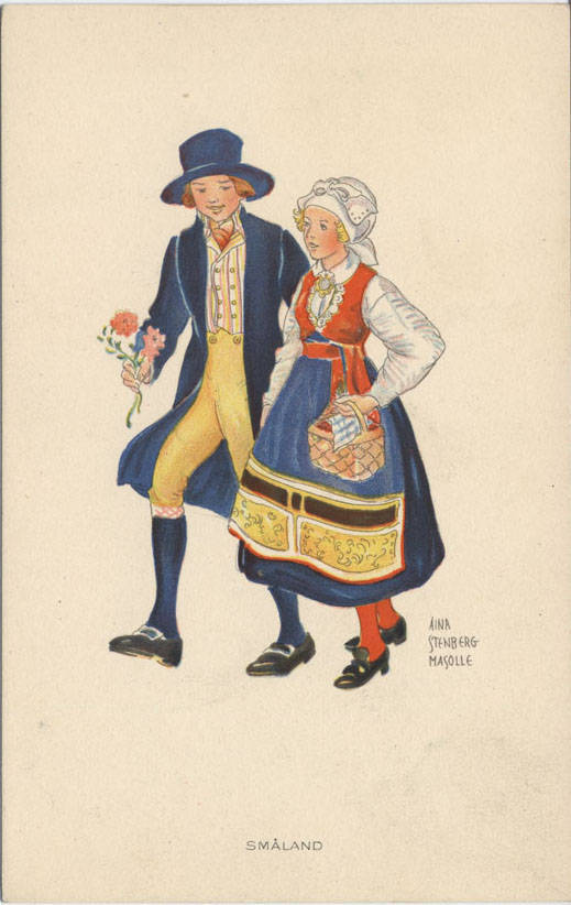 Smaland